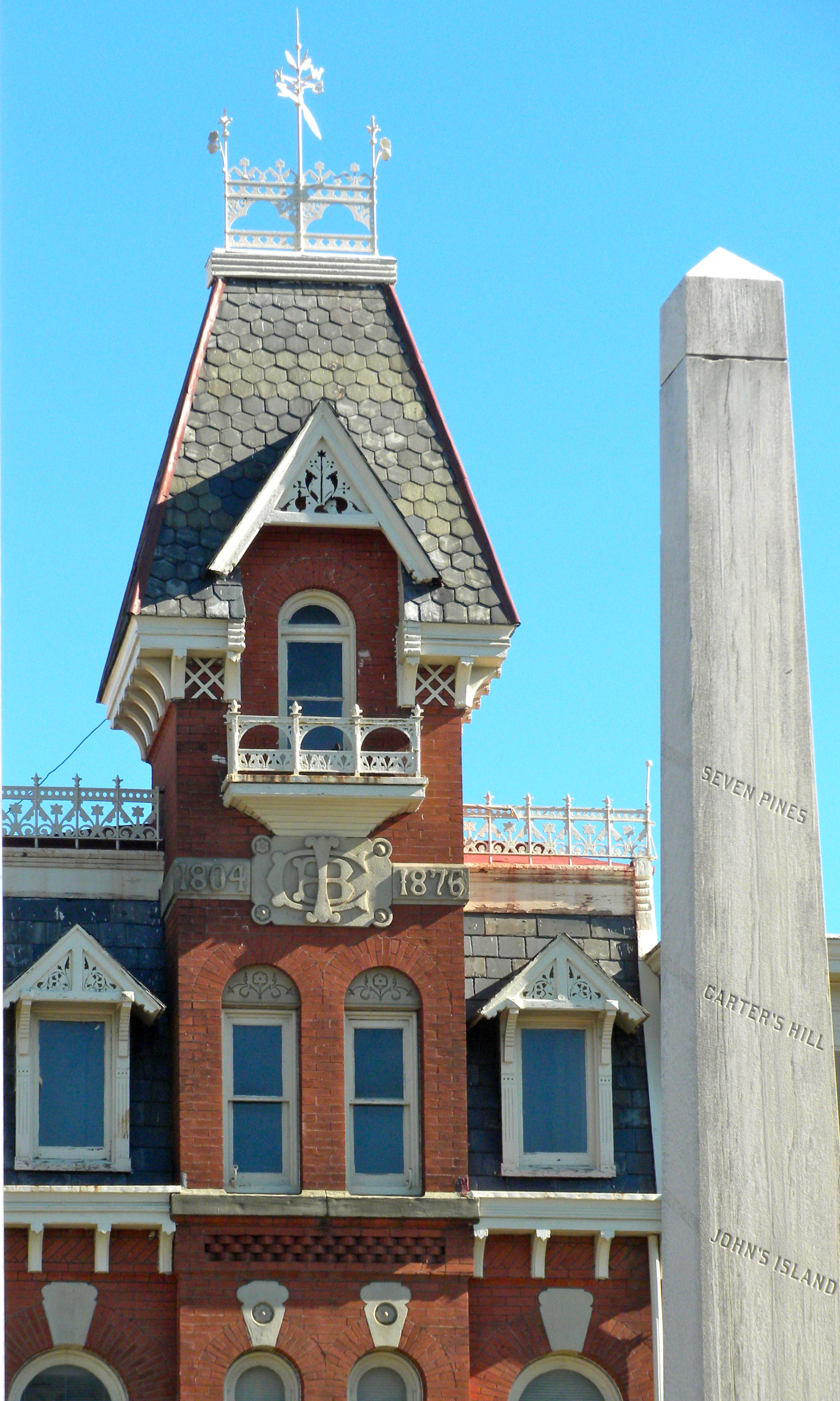 Building in downtown Doylestown, Bucks County, Pennsylvania, with an obelisk Civil War Memorial to the right. these are on the central square near the courthouse. Downtown is part of the Doylestown Historic District, which is on the NRHP.